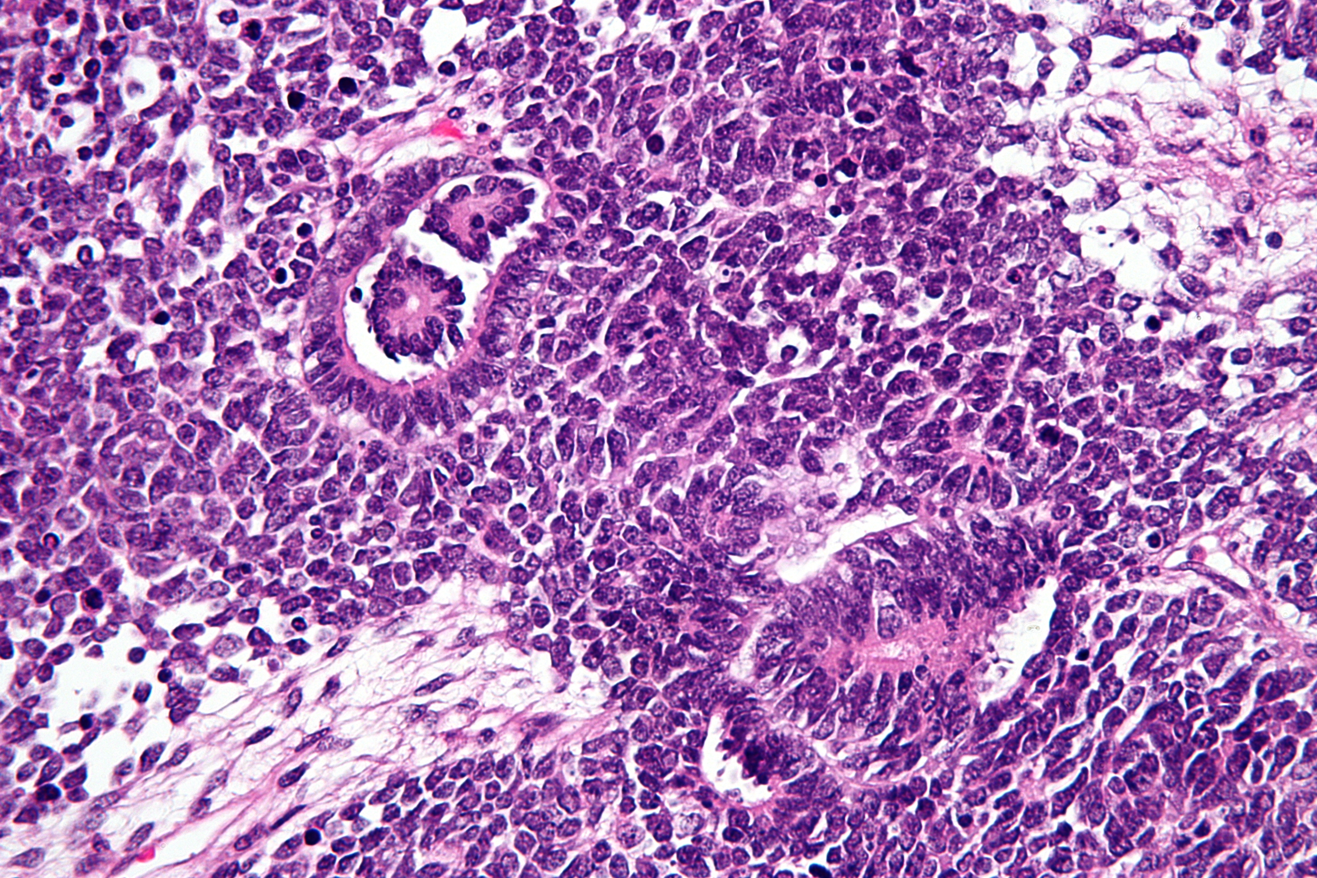 Very high magnification micrograph of a Wilms' tumour, also nephroblastoma and Wilms tumour. Surgical excision. H&E stain. Wilms tumour is a type of kidney cancer that is seen predominantly in children. The images show the characteristic three components: Malignant small round (blue) cells ~ 2x the size of resting lymphocyte (blastema component). Tubular structures/rosettes (epithelial component). Loose paucicellular stroma with spindle cells (stromal component). Related images Low mag. Intermed. mag. High mag. Very high mag.